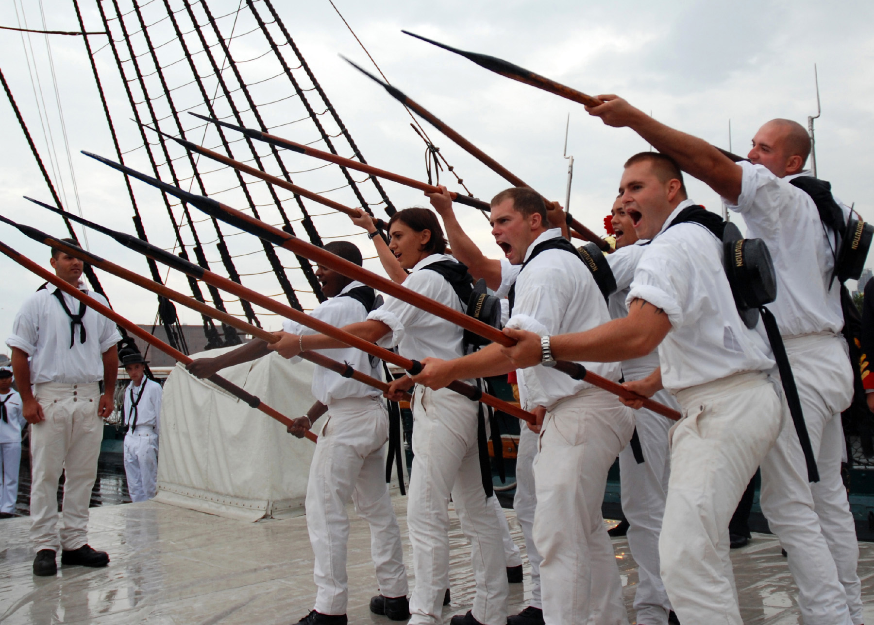 CHARLESTOWN NAVY YARD, Mass. (Aug. 15, 2008) USS Constitution's boarding pike team demonstrates an early 19th century drill Sailors and Marines used to repel enemies from boarding the ship during the USS Constitution vs. HMS Guerriere Battle Commemoration. More than 65 guests and military officials joined the captain and crew for this second annual observance of the battle. Constitution earned her nickname "Old Ironsides" Aug. 19, 1812, when 18-pound iron round shot from the British frigate bounced harmlessly off her oak hull. (U.S. Navy photo by Seaman Brian M. Brooks/Released)